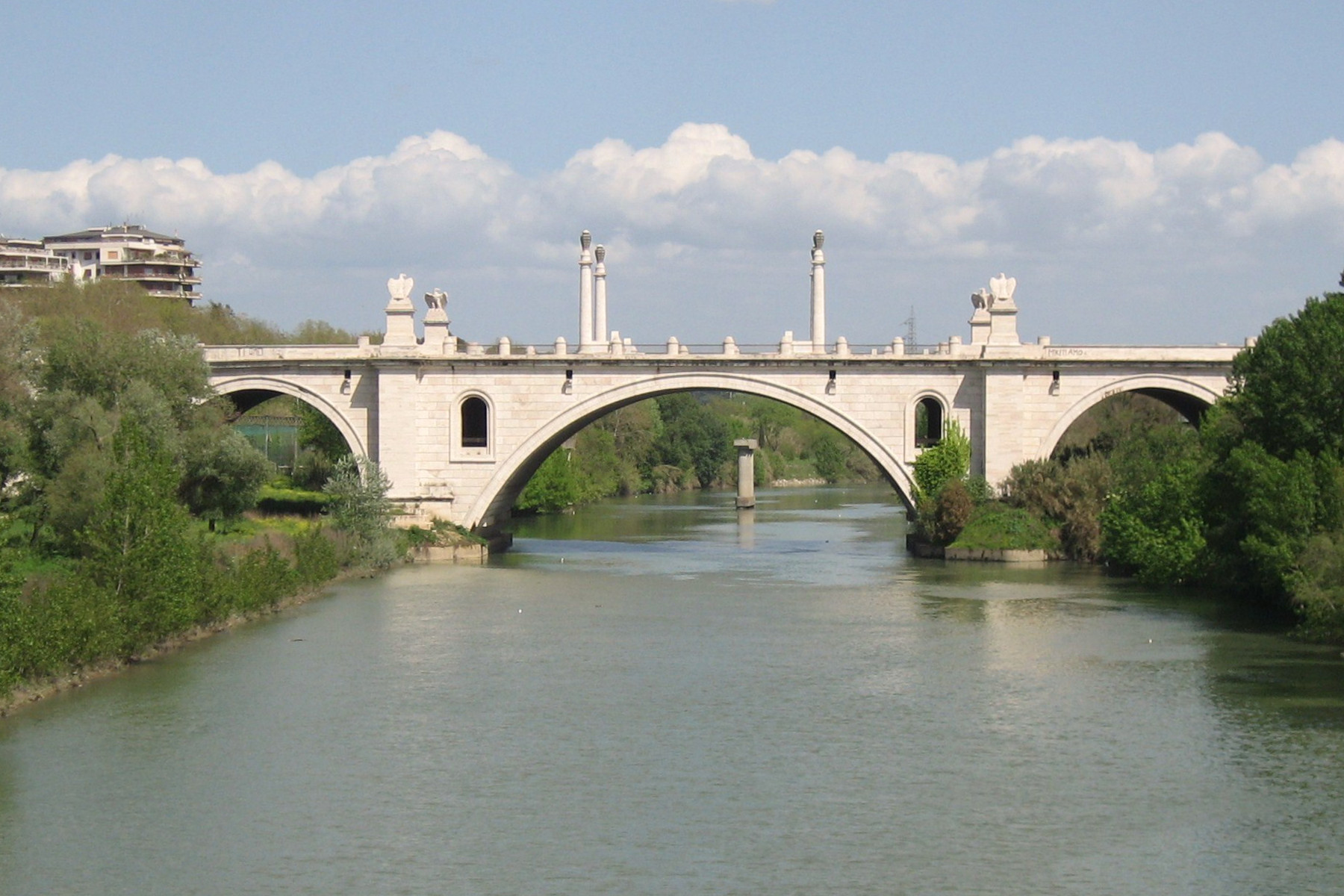 Ponte Flaminio, Rome, Italy as seen from Ponte Milvio